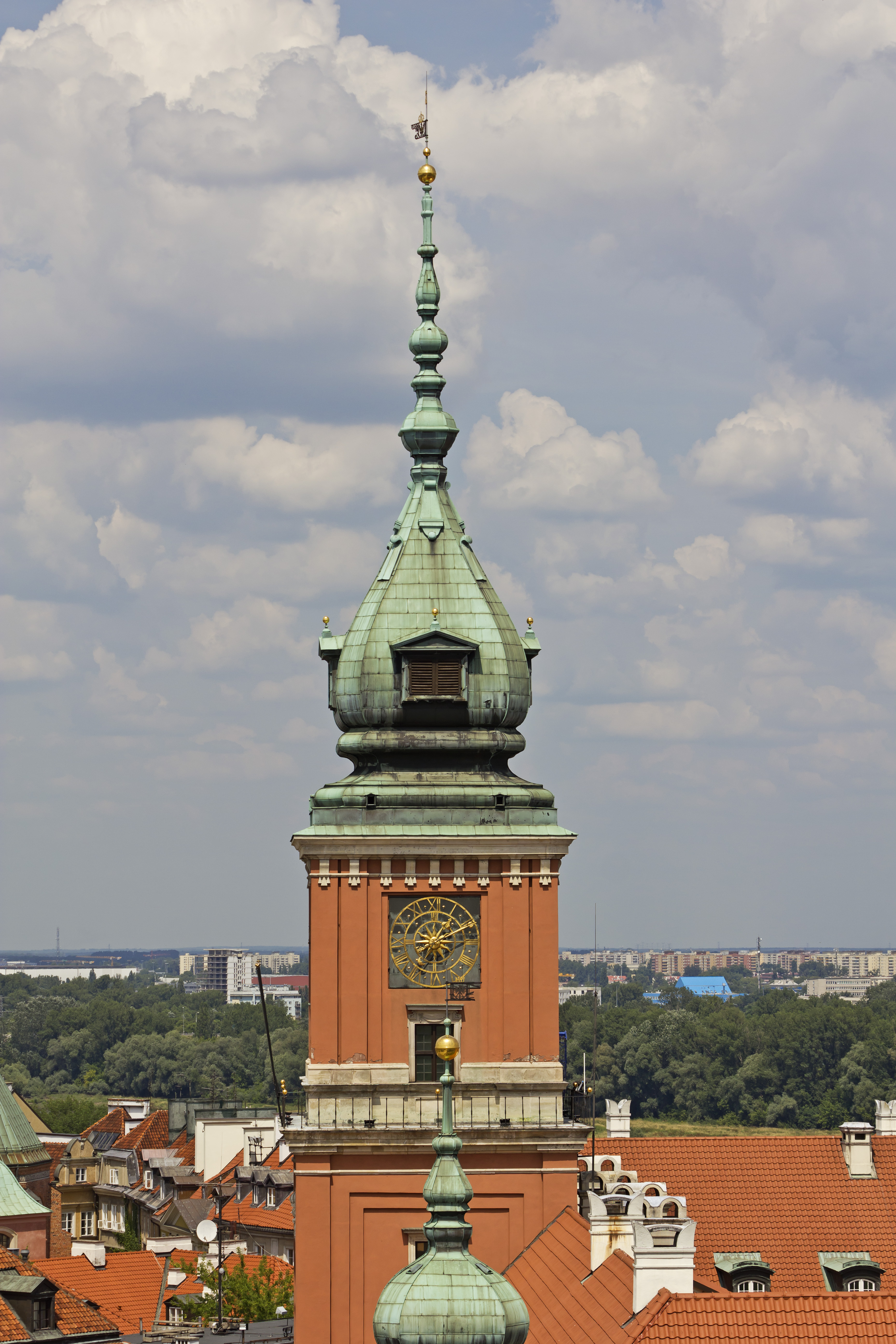 View from the St. Anne Church tower at Castle Square in the Old Town (Stare Miasto) in Warsaw (Poland). Royal Castle.